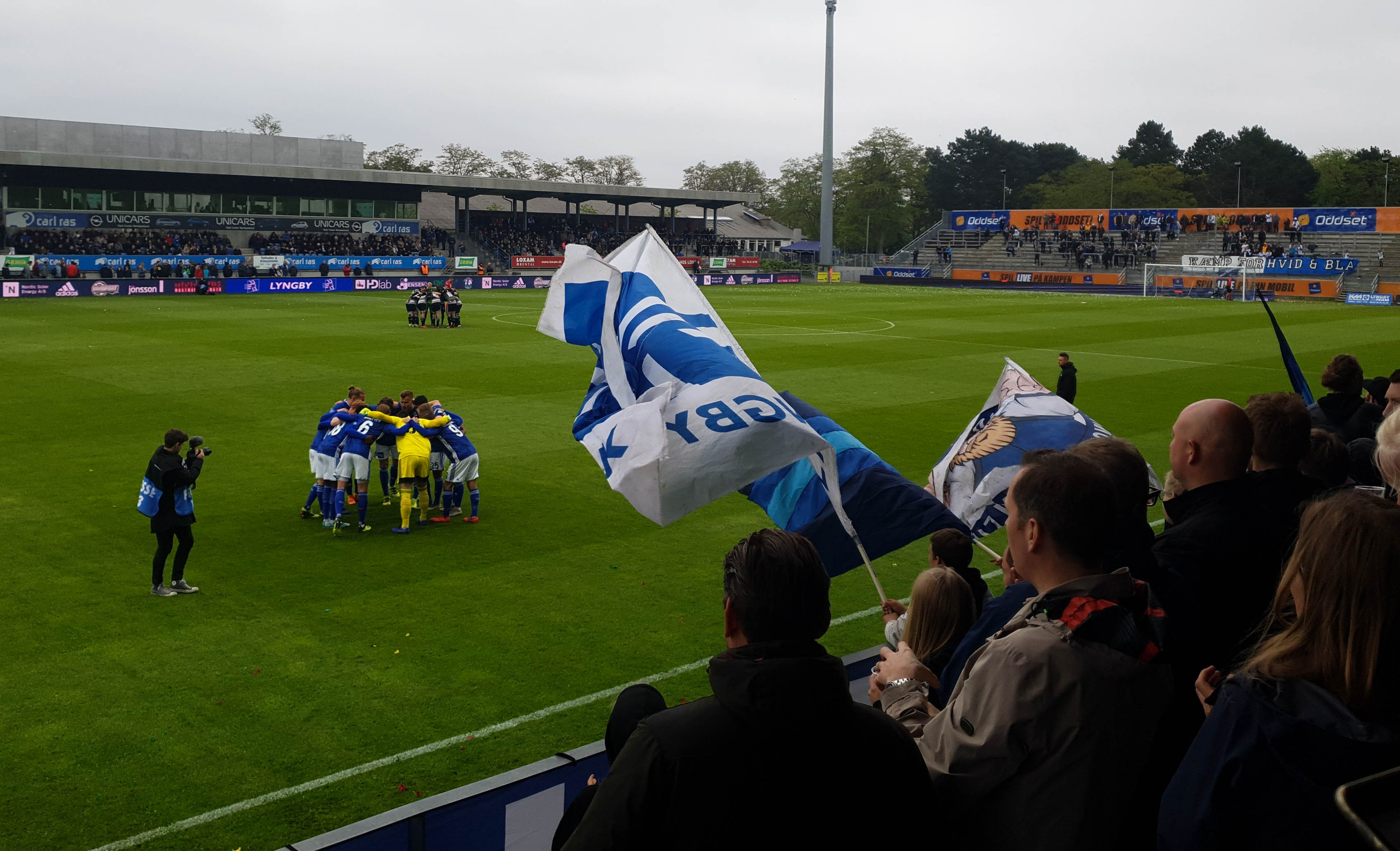 The squads of football teams Lyngby Boldklub and Vendyssel FF each gather in a circle moments before the beginning of the first of two play-off matches for admission to the Danish Superliga. This match took place at Lyngby Stadium.